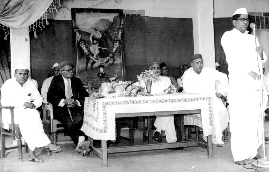 24-04-1960 Inaugarattion of Auditorium -Rao-saheb Ramchandra Butte Patil,Namdar Balasaheb Desai,Bapoosaheb Bhagat,Natookaka Jogalekar